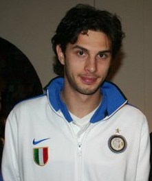 Andrea Ranocchia with Inter in Bari